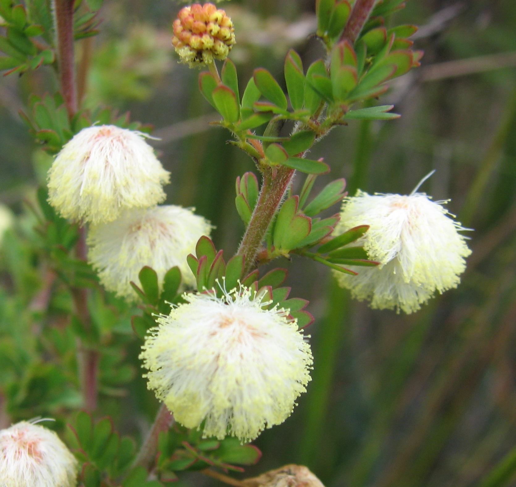 Acacia mitchellii, Brisbane Ranges National Park, Victoria, Australia